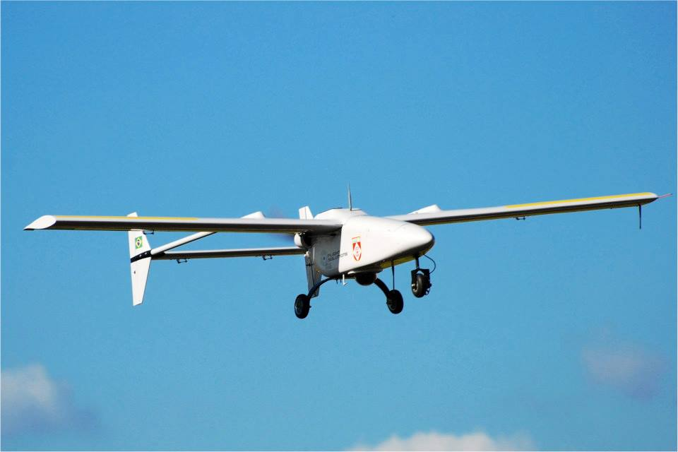 VT-15 during flight at Batalhão de Aviação do Exército - Taubaté